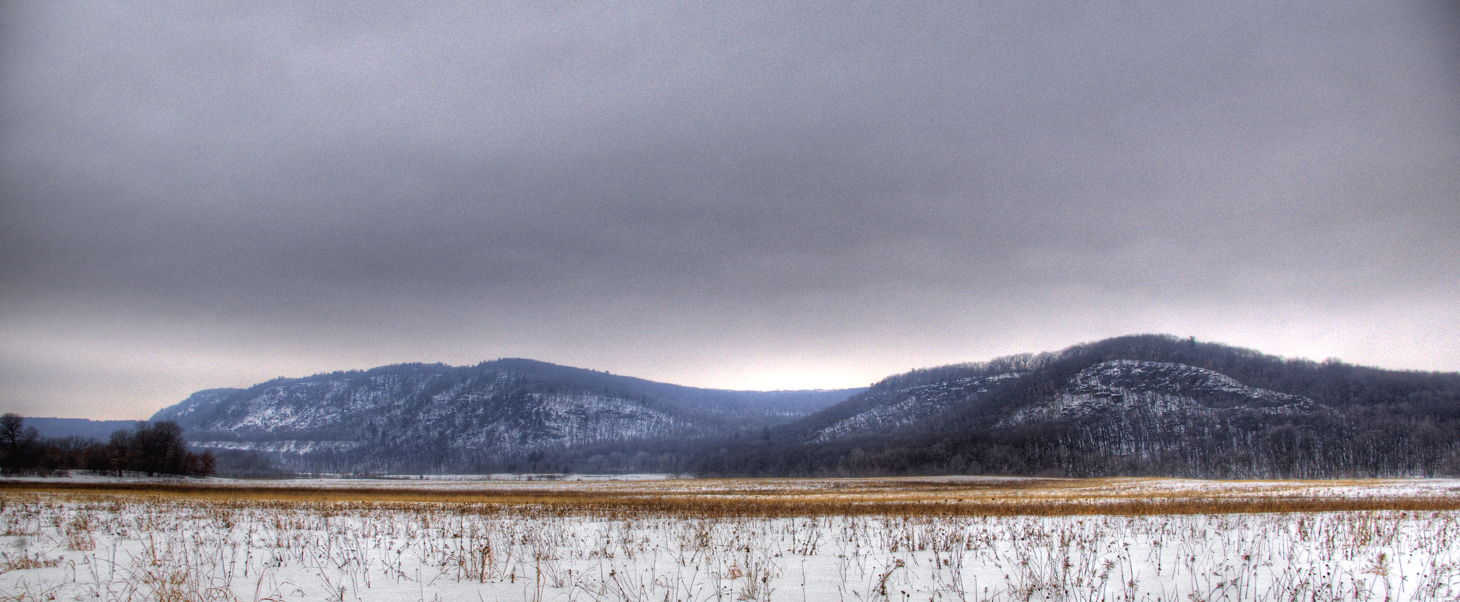 The Baraboo Range consists of highly eroded precambrian metamorphic rock; and is about 25 miles long and varies from 5 to 10 miles in width. The range is an example of a buried mountain range exposed through erosion, to once again undergo the forces of surface erosion. The rocks are as much as 1.6 billion years old, among the oldest exposed rocks in North America consisting mainly of pink Baraboo quartzite and red rhyolite. The Wisconsin River, previously travelling in a north to south direction, turns to the east behind it before making its turn to the west towards the Upper Mississippi River. The eastern end of the range was glaciated during the Wisconsinian glaciation, while the western half was not, and consequently, marks the eastern boundary of Wisconsin's Driftless Area.